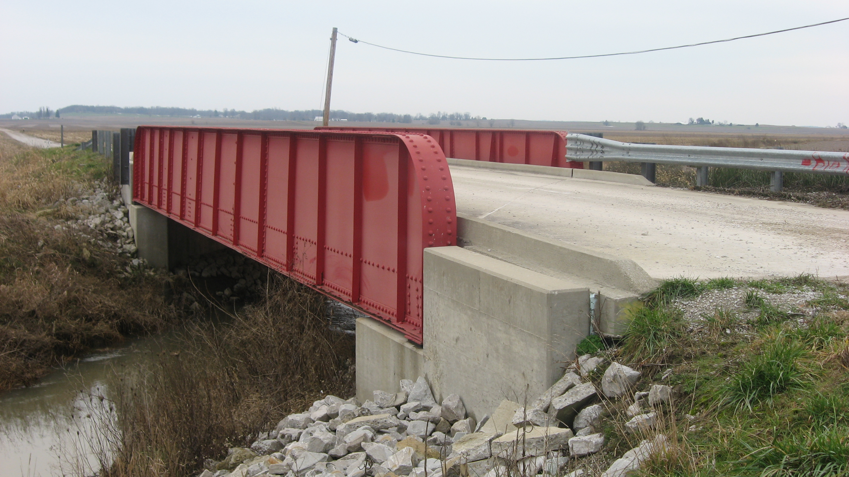 Northern end and eastern side of the Lake Ditch Bridge, which carries Lake Ditch Road over Lake Ditch west of Monrovia in Monroe Township, Morgan County, Indiana, United States. The bridge's history is unclear; it is thought perhaps to be a railroad bridge that was relocated here, partially because its structure is more suited to a rail line than to an obscure dirt road. Built in 1895, it is listed on the National Register of Historic Places.